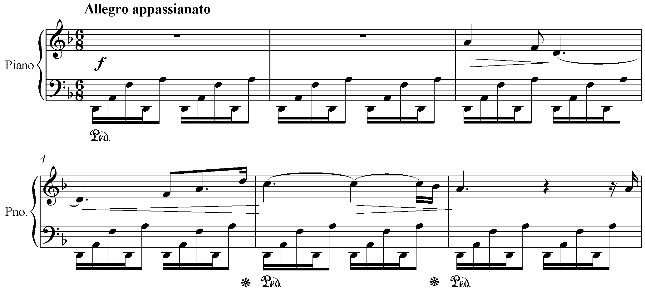 6 first bars of Chopins prelude 24 op. 28